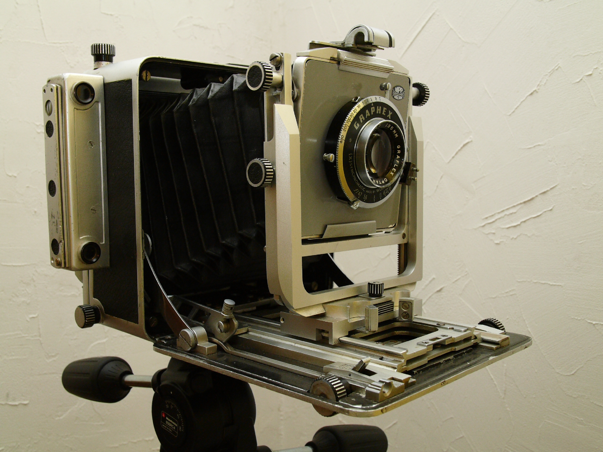 English camera Micro Precision Products Ltd, model MPP mark VIII format 4"x5"